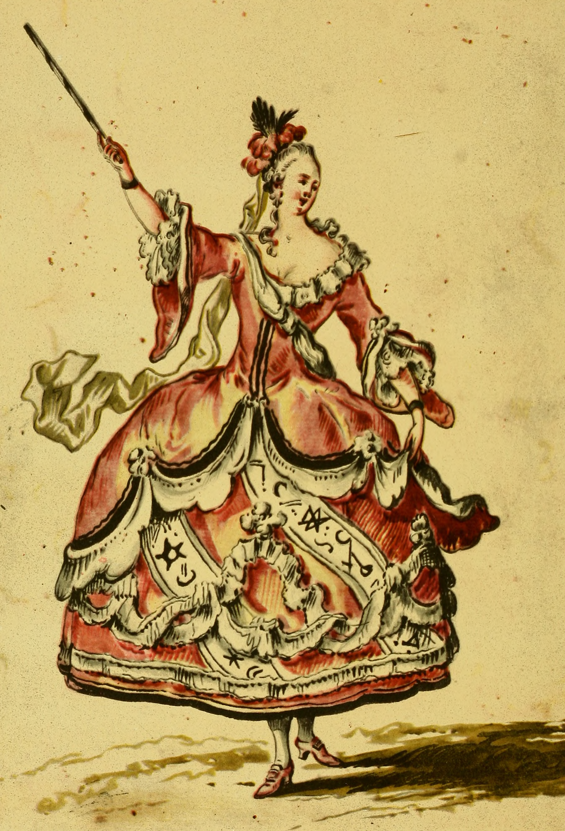 Joseph Haydn - Armida - Esterhaza 1784 - Costume Armida